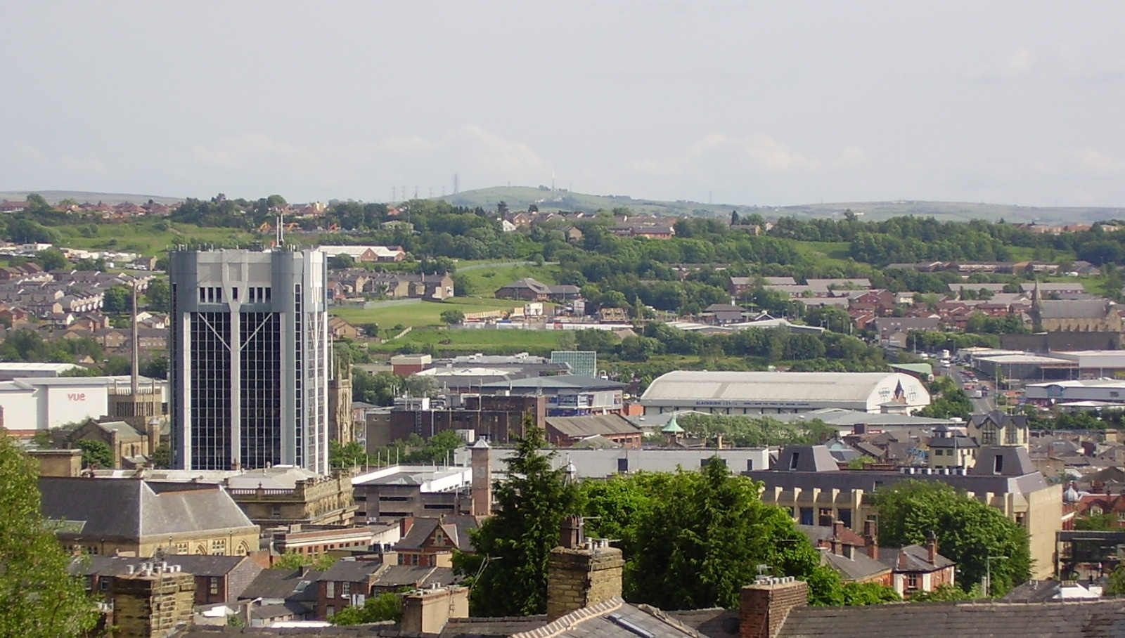 Blackburn town centre from Shear Brow area